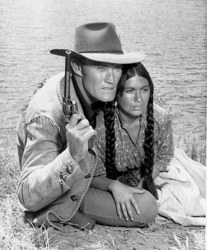 Photo of Chuck Connors as Jason McCord and guest star Anna Morrell from the television program Branded.